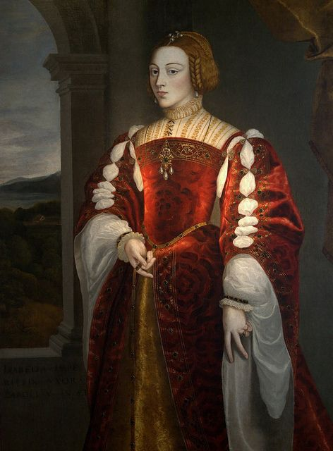 Isabella of Portugal, Holy Roman Empress